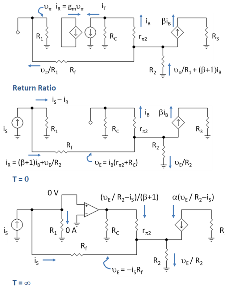 Schematics for using asymptotic gain formula